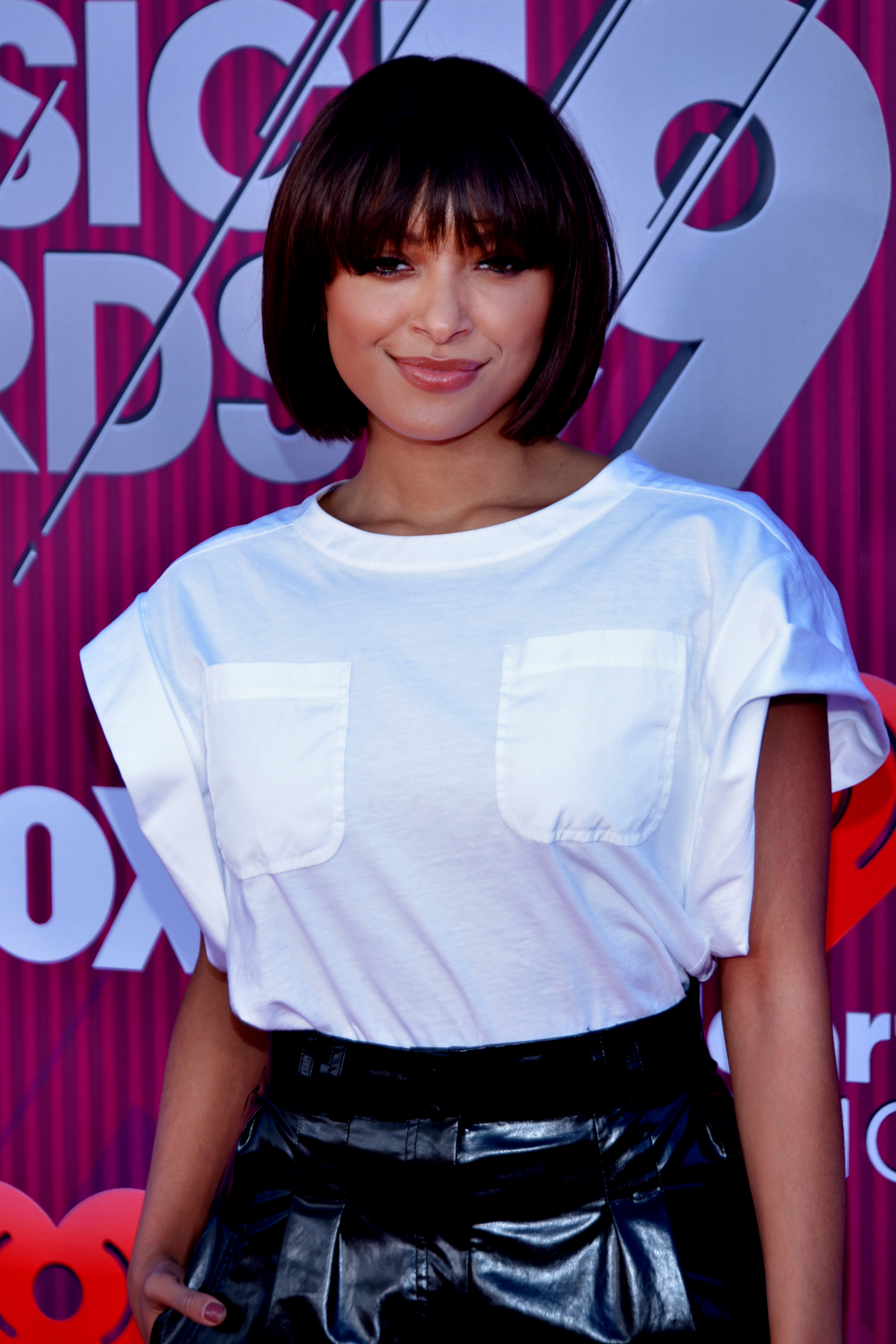 Kat Graham at the iHeart Radio Music Awards in Los Angeles California on March 14, 2019 - Photo by Glenn Francis of